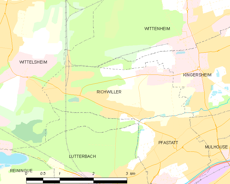 Map of French municipality